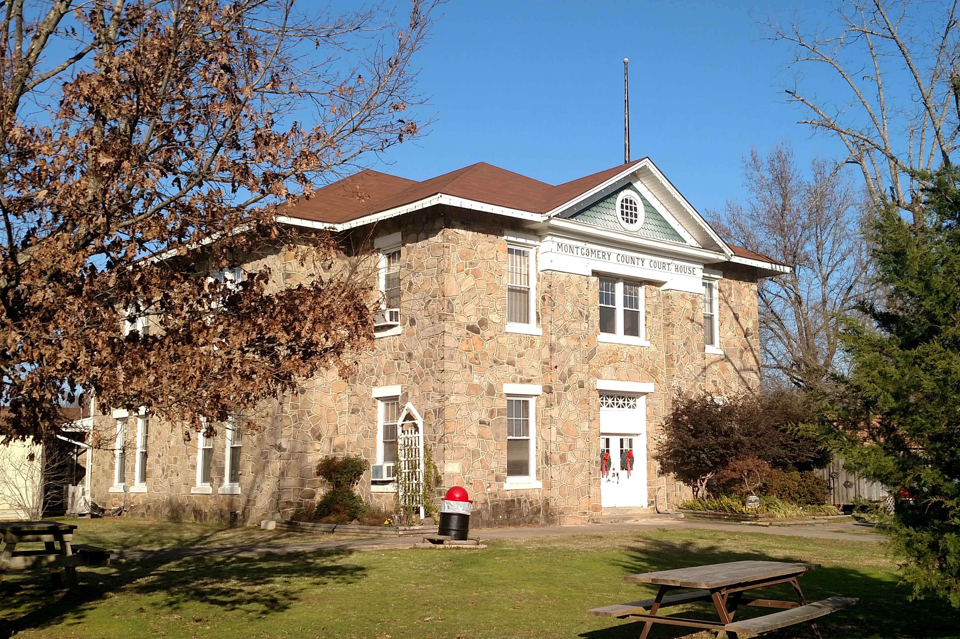 Side view of courthouse